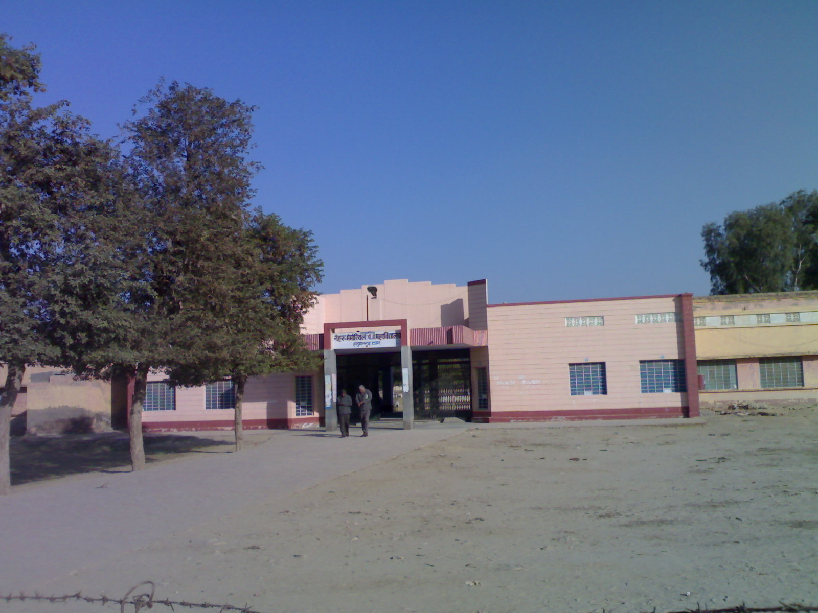 It is created by me (user:Shemaroo)Sivender Singh.It is a photo of Govt. Nehru Memorial Post Graduate College, Hanumangarh Town. Shemaroo (talk) 12:06, 16 December 2010 (UTC)